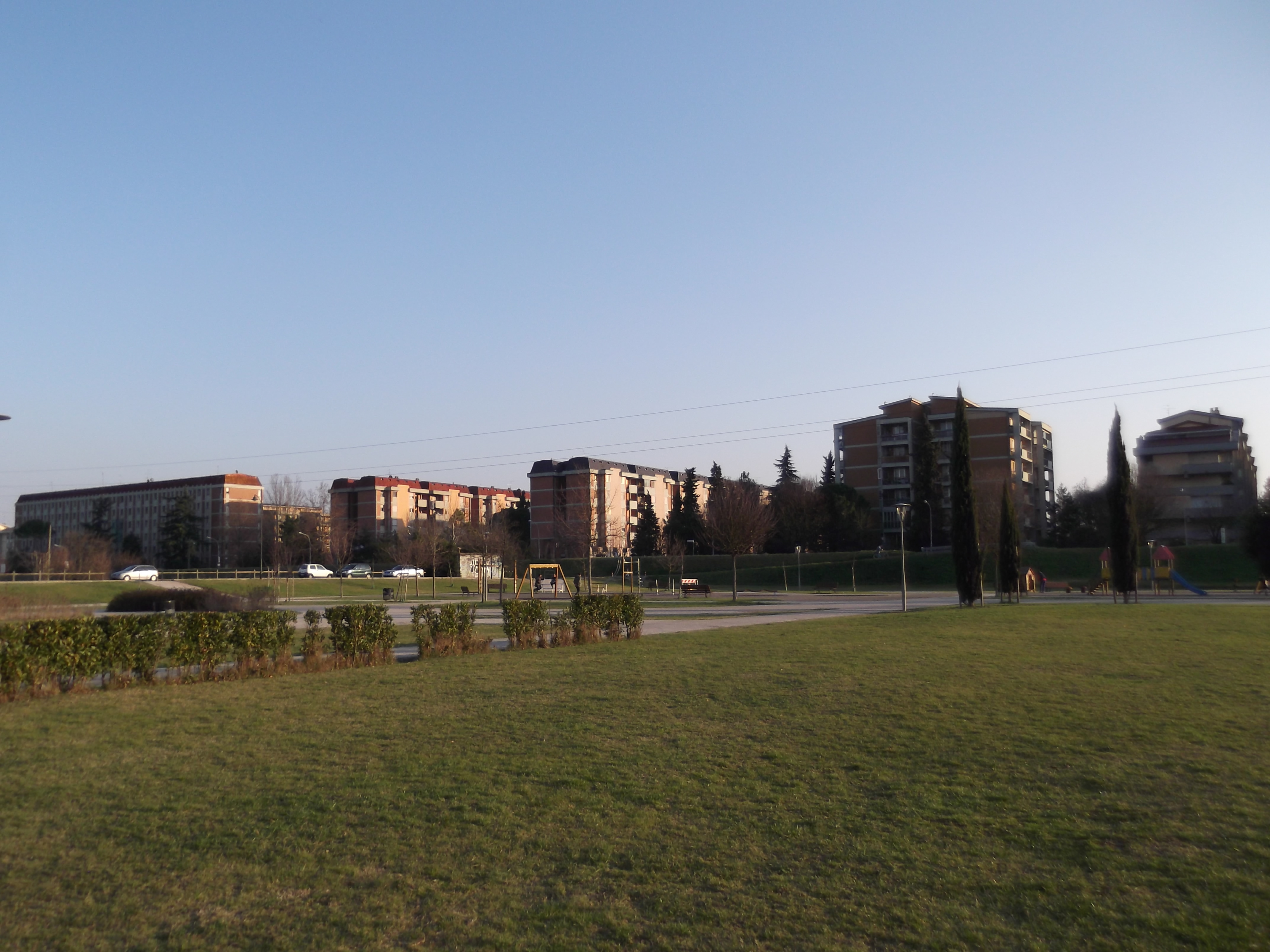 Palazzi in linea e a torre lungo via dell'Argingrosso